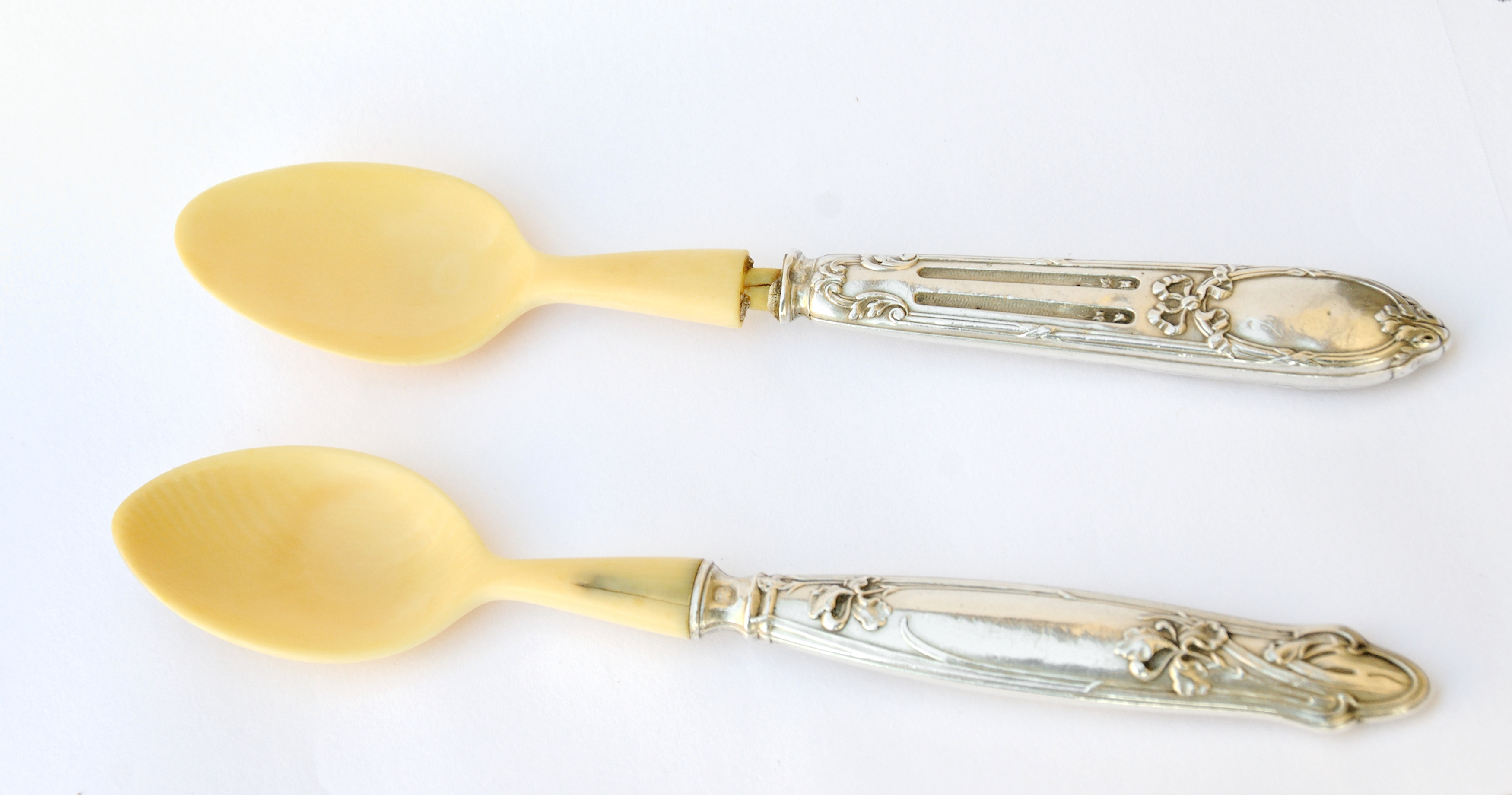 A pair of horn egg spoons with silver handles (silverware is not used to eat eggs, as it will blacken the silver).